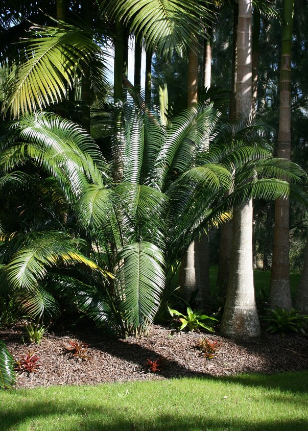 Lepidozamia peroffskyana growing here under Archontophoenix palms at Kerikeri, New Zealand.